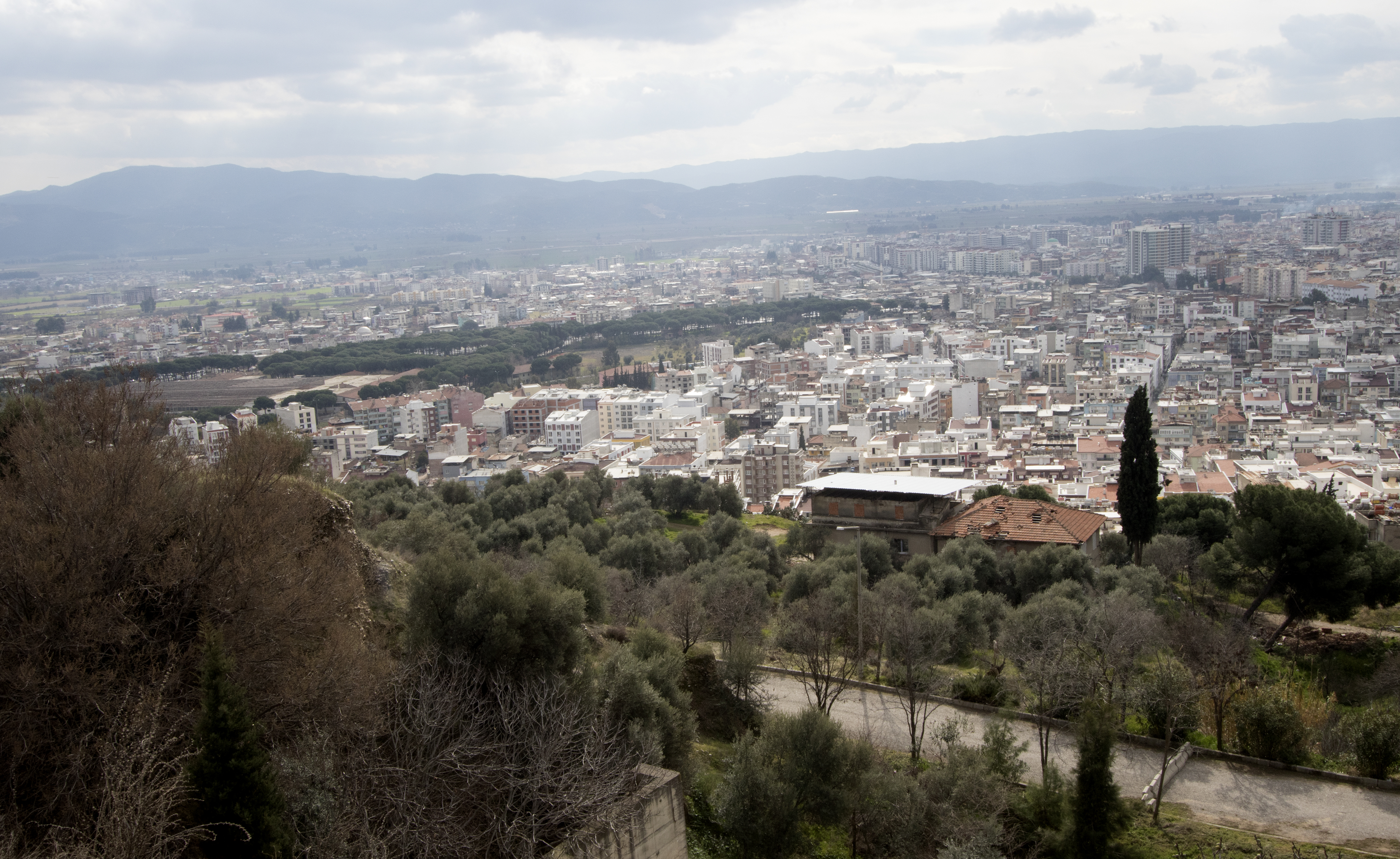 A partial view of the middle section of Aydın city from the Adnan Menderes University Campus. Aydın, Turkey.